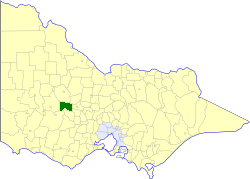 Location of the former Shire of Avoca within Victoria.